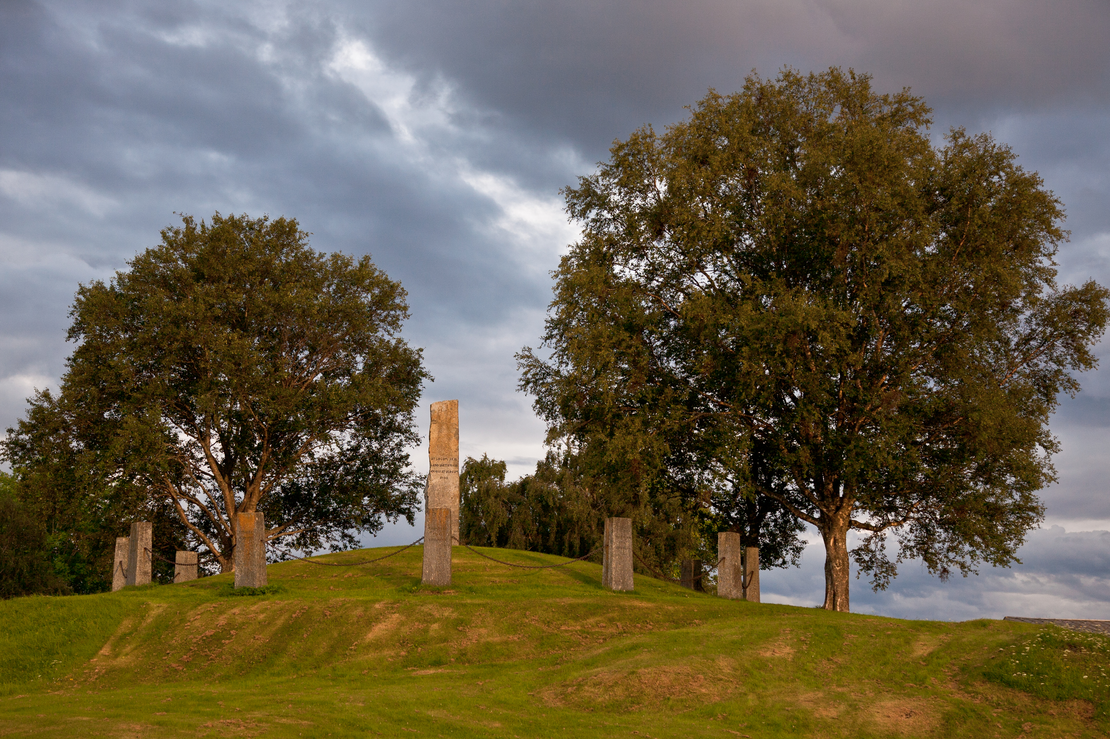 Frostating tinghaugen